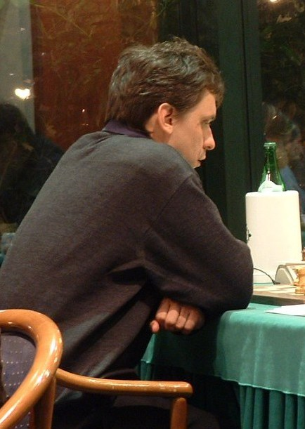 Denis Yevseev at 46th Reggio Emilia tournament